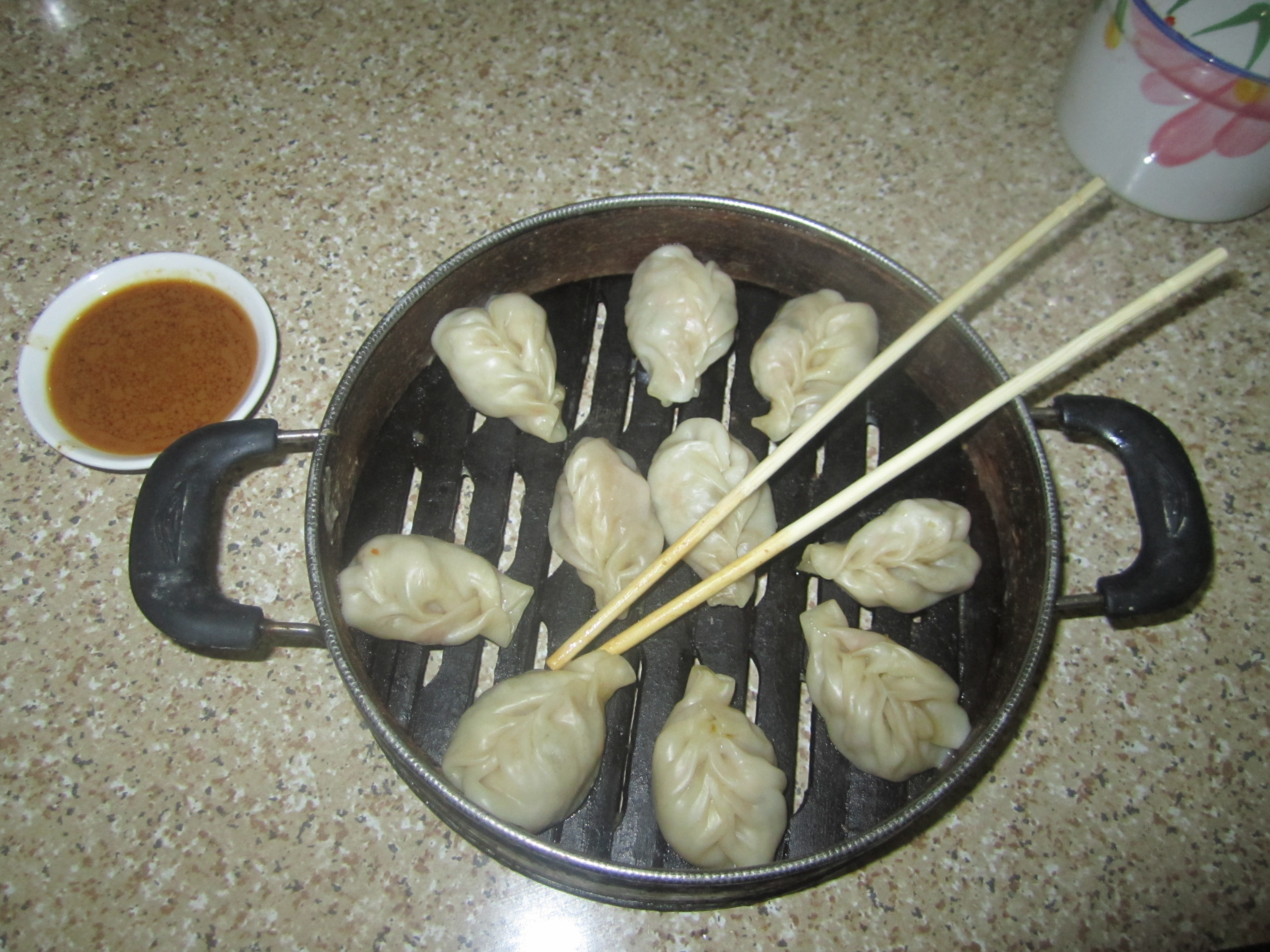 10 jiaozi for 3 yuan, plus a peanut butter kind of sauce.